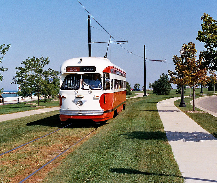 Kenosha Streetcar touring Harborpark.